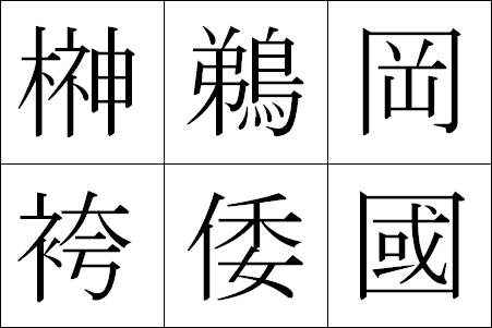 Examples of Jinmeiyou kanji/人名漢字 characters: 榊 - Sakaki (a sacred tree); 鵜 - U (cormorant); 岡 - Oka (hill); 袴 - Hakama (ceremonial skirt); 倭 - Wa (Ancient Japan); 國 - Koku [Kyuujitai] (country)